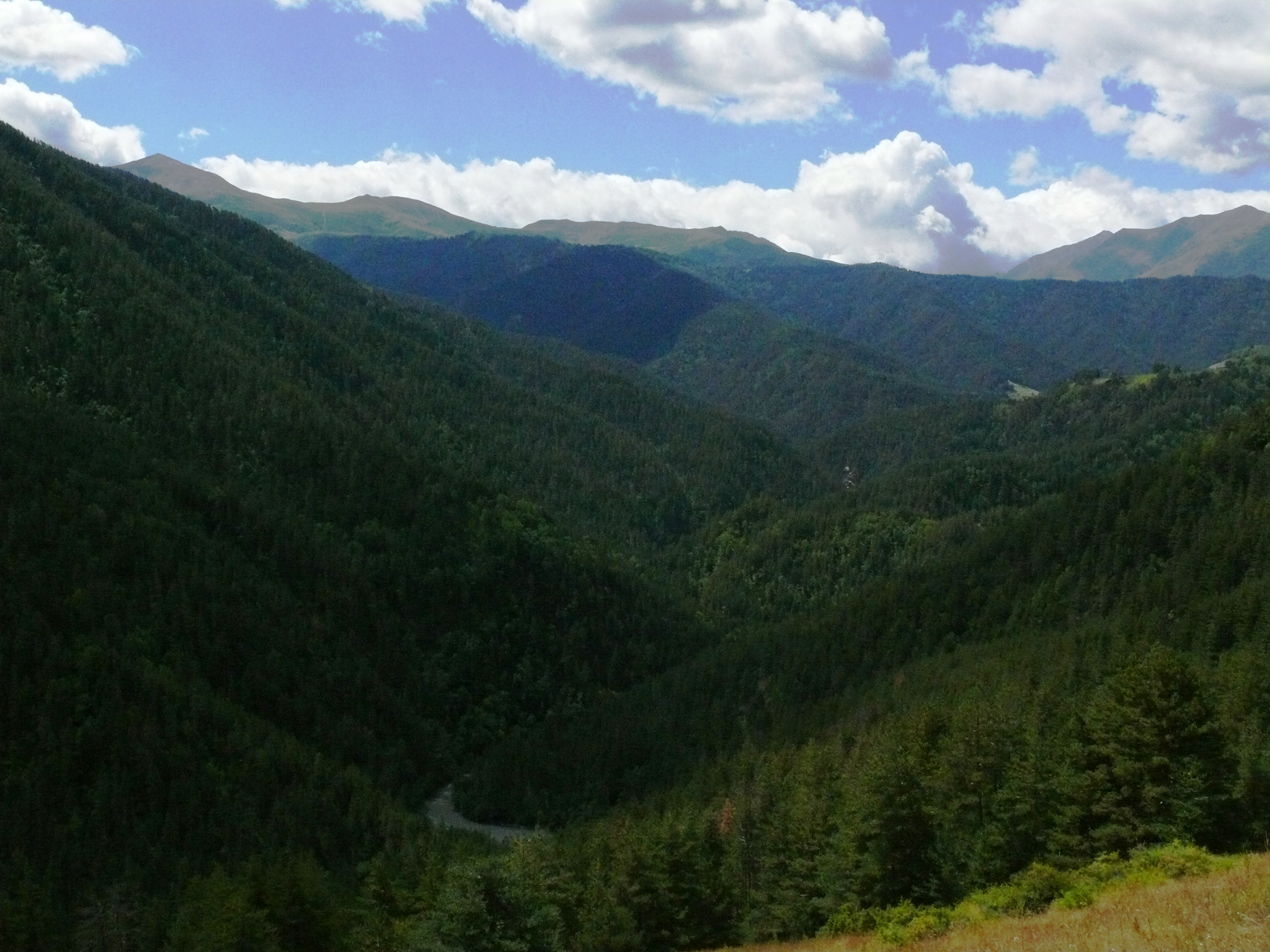 thusheti